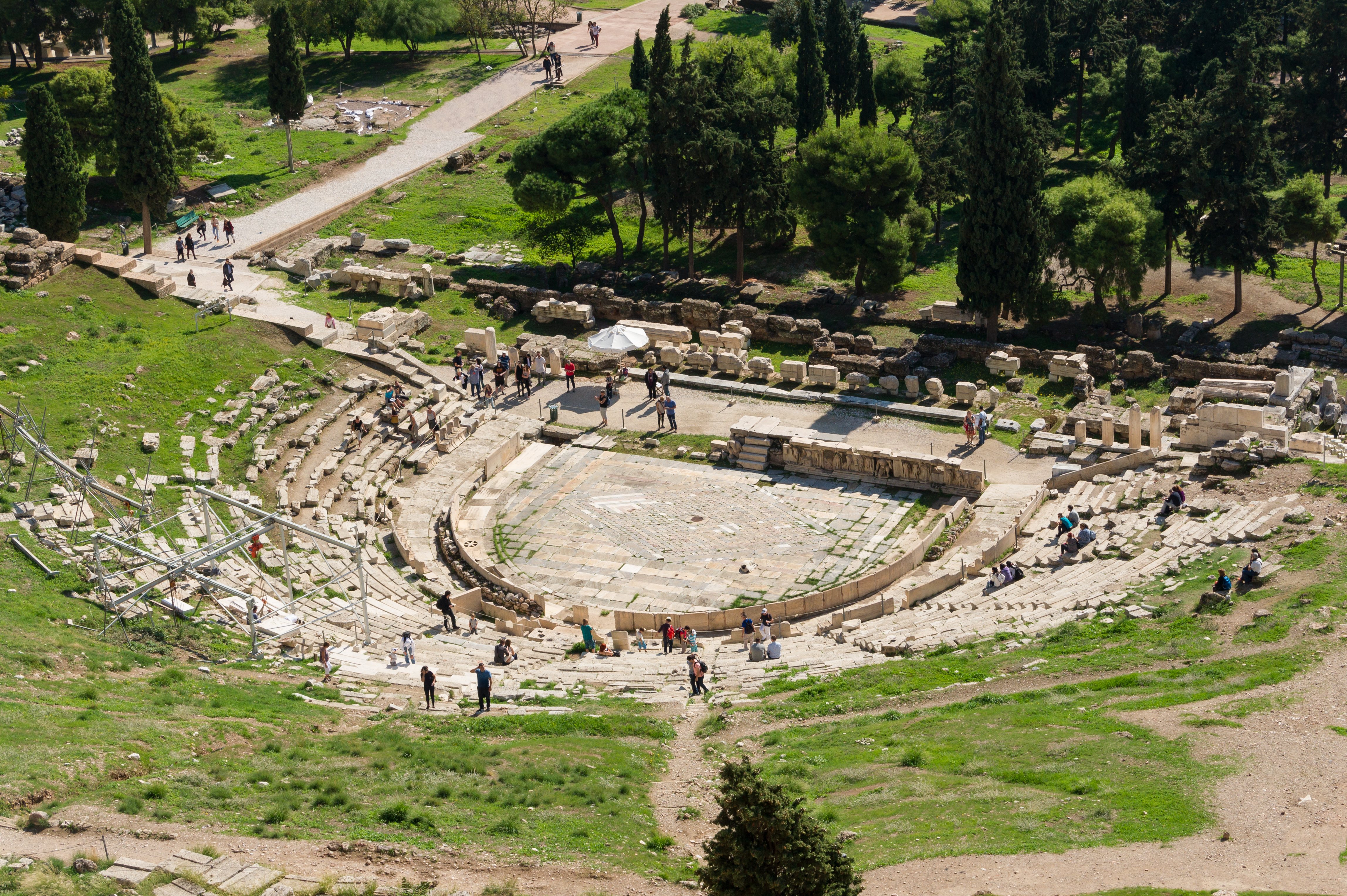 Theatre of Dionysus, Southern slope of the Acropolis, Athènes, Greece.